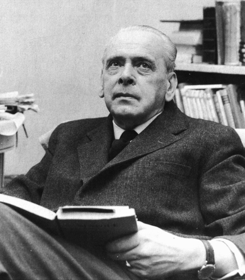 Photograph of the Finnish composer and writer Bengt von Törne (1891–1967).